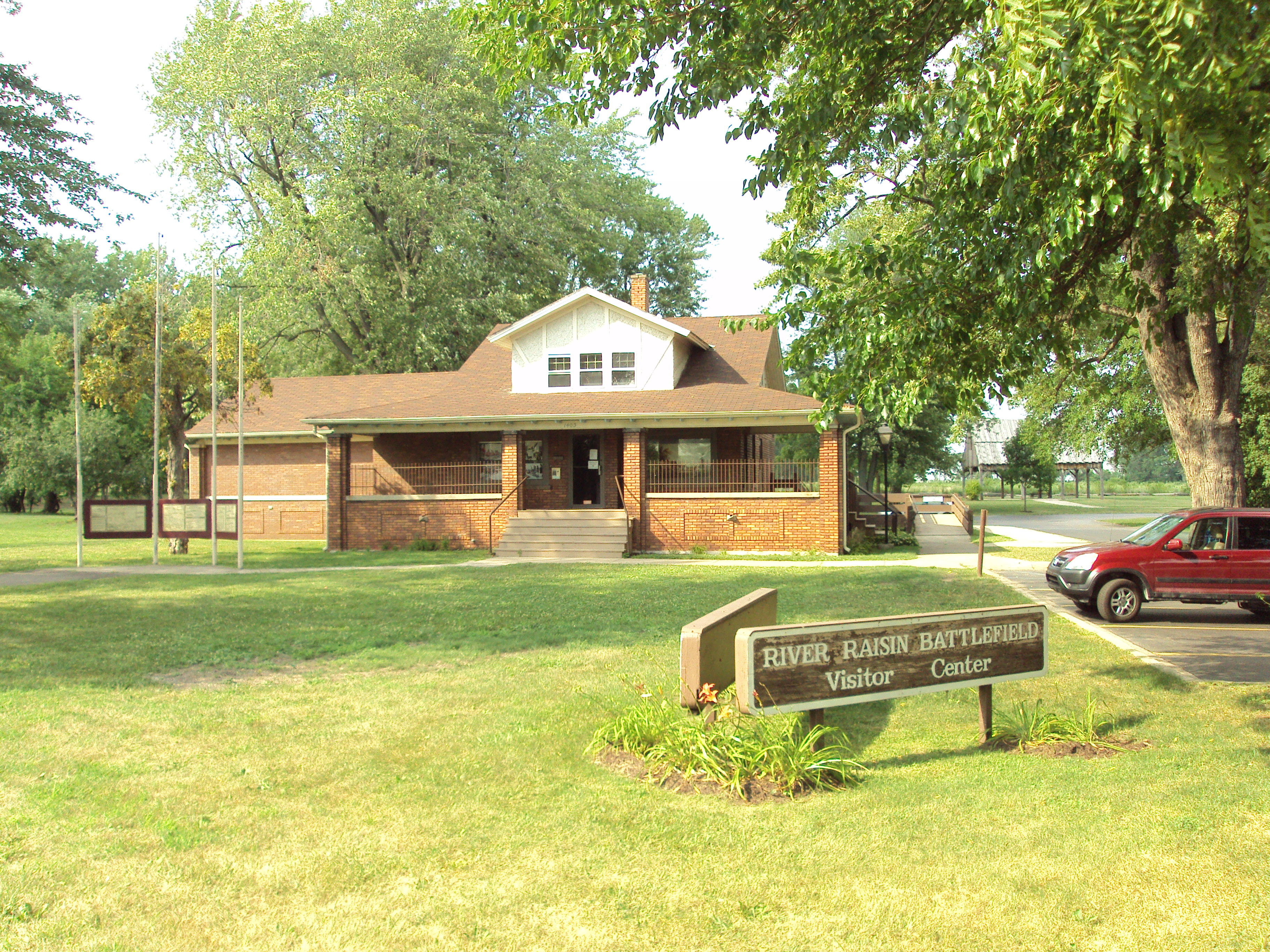 Part of the River Raisin National Battlefield Park